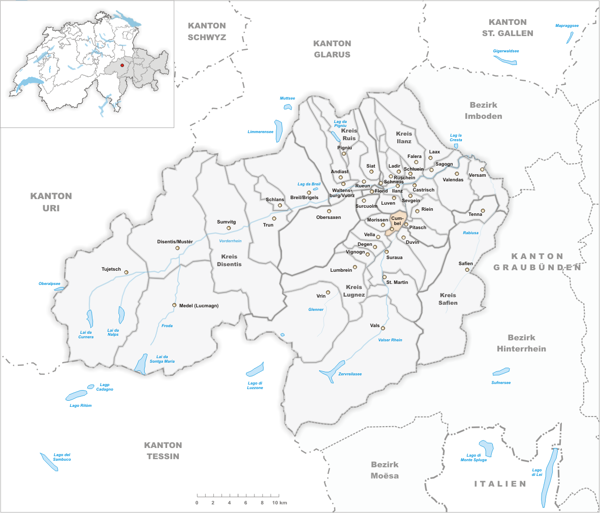 Municipality Cumbel